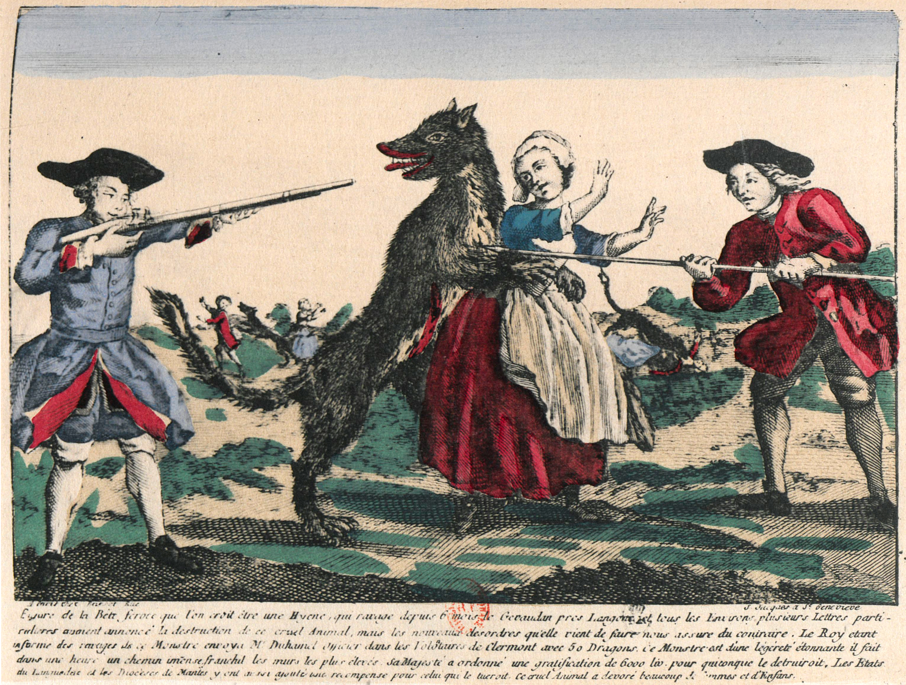 18th century print depicting the Beast of Gévaudan.